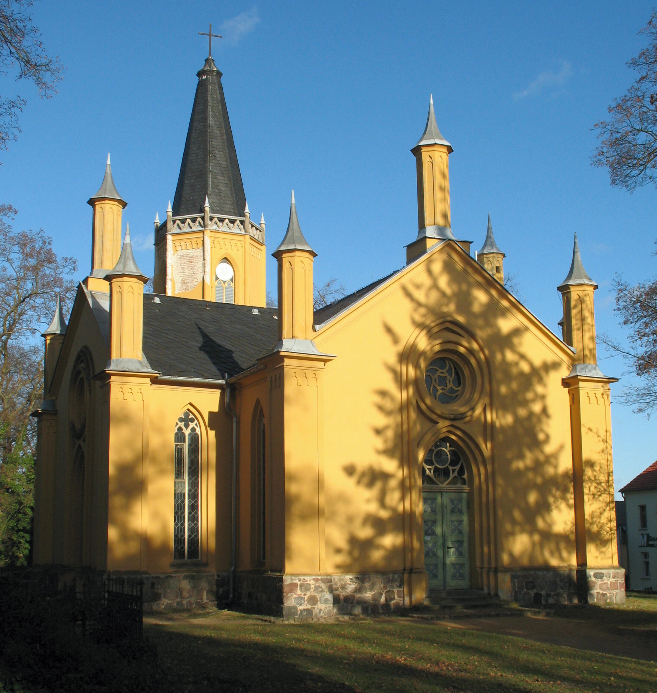 Church in Großbeeren in Brandenburg, Germany